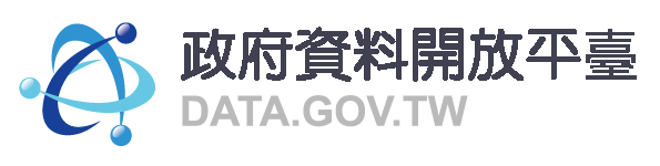 Government Website Open mark